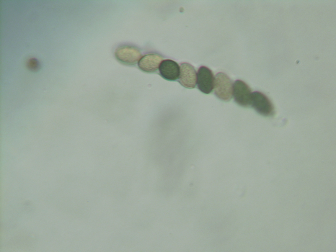 Sordaria fimicola ascus magnified 160X. This ascus is the result of a mating cross between wild-type (dark) and mutant (tan) fungi, which is why the ascus contains different-colored ascospores. Identified using Hanlin, R. T. (2001) Illustrated Genera of Ascomycetes, Volume 1. APS Press: St. Paul, MN; pp. 132–3 ISBN 0-89054-107-8. Obtained from a Sordaria Genetics BioKit® supplied by Carolina Biological Supplies Company [1].